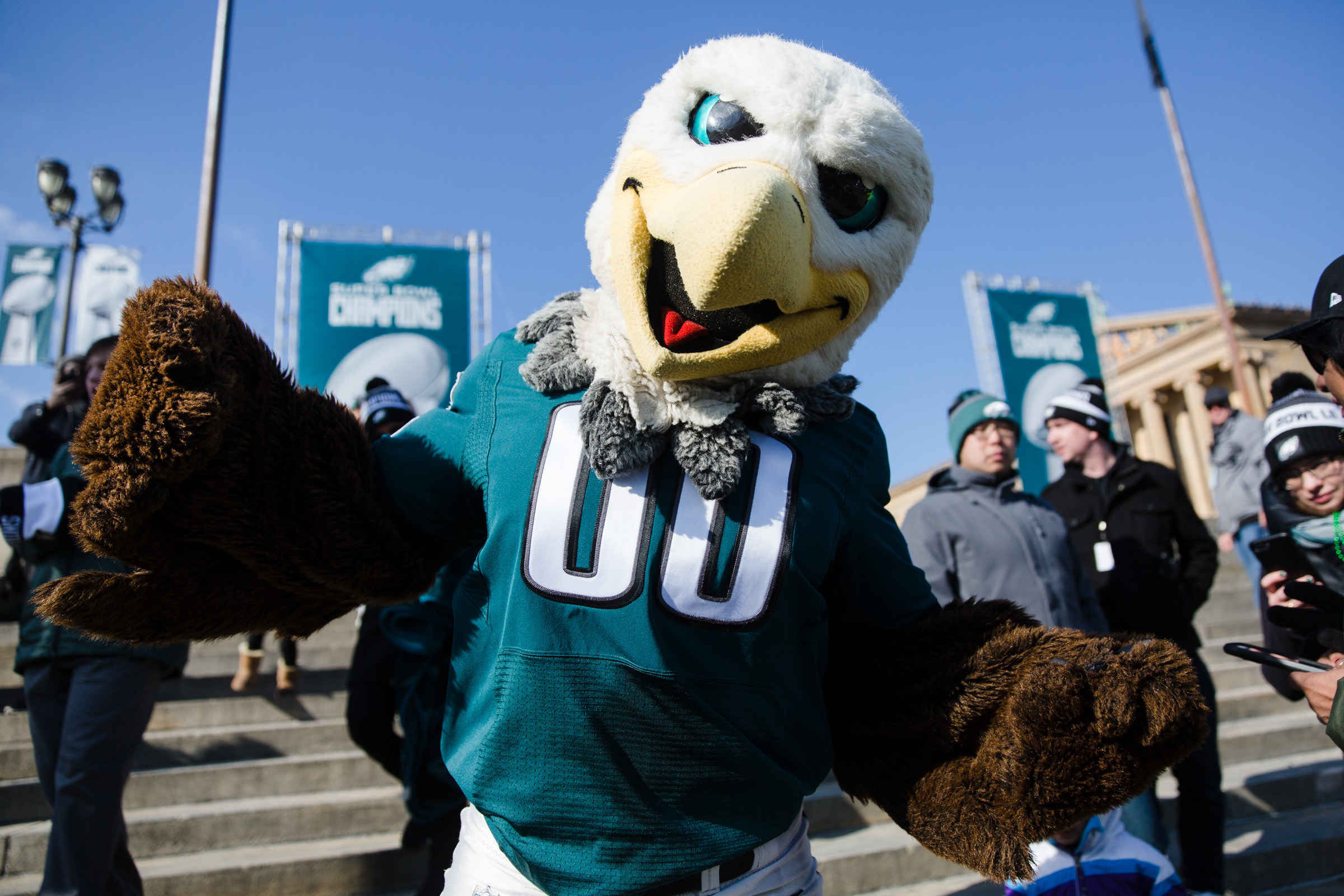 February 8, 2018 Philadelphia, PA